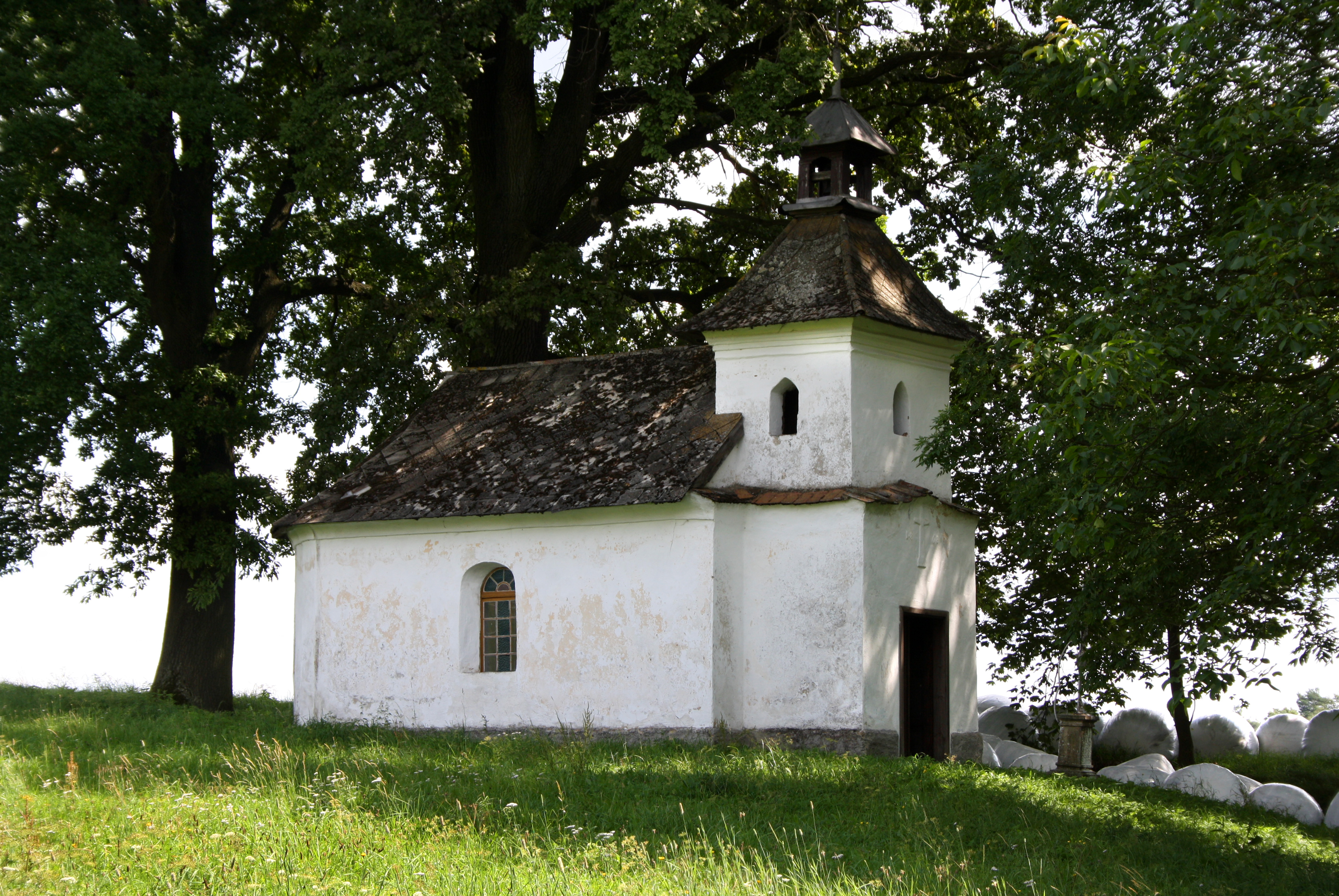 Small chapel in Jelcovy Lhotky, part of Pelhřimov, Czech Republic